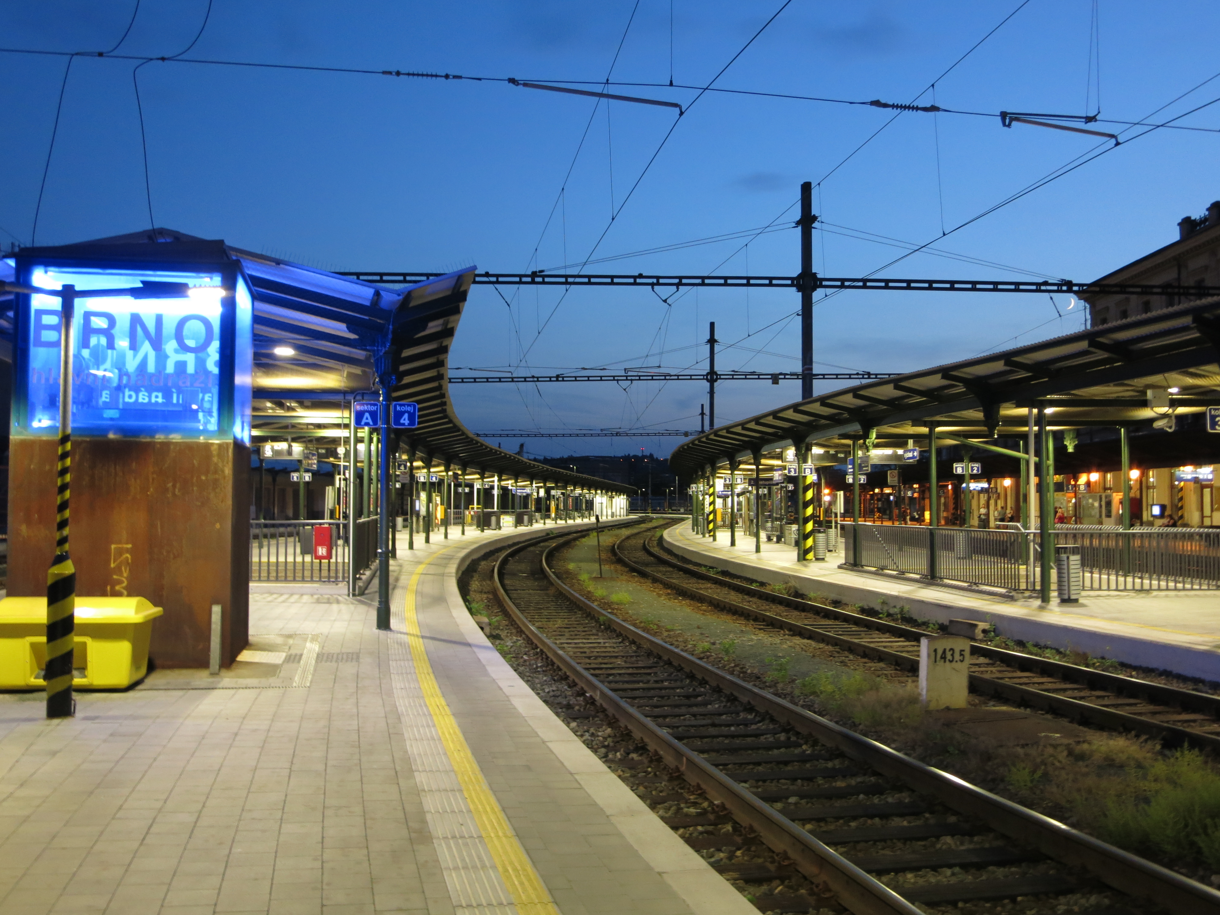 Brno Central station, track 4 and 3